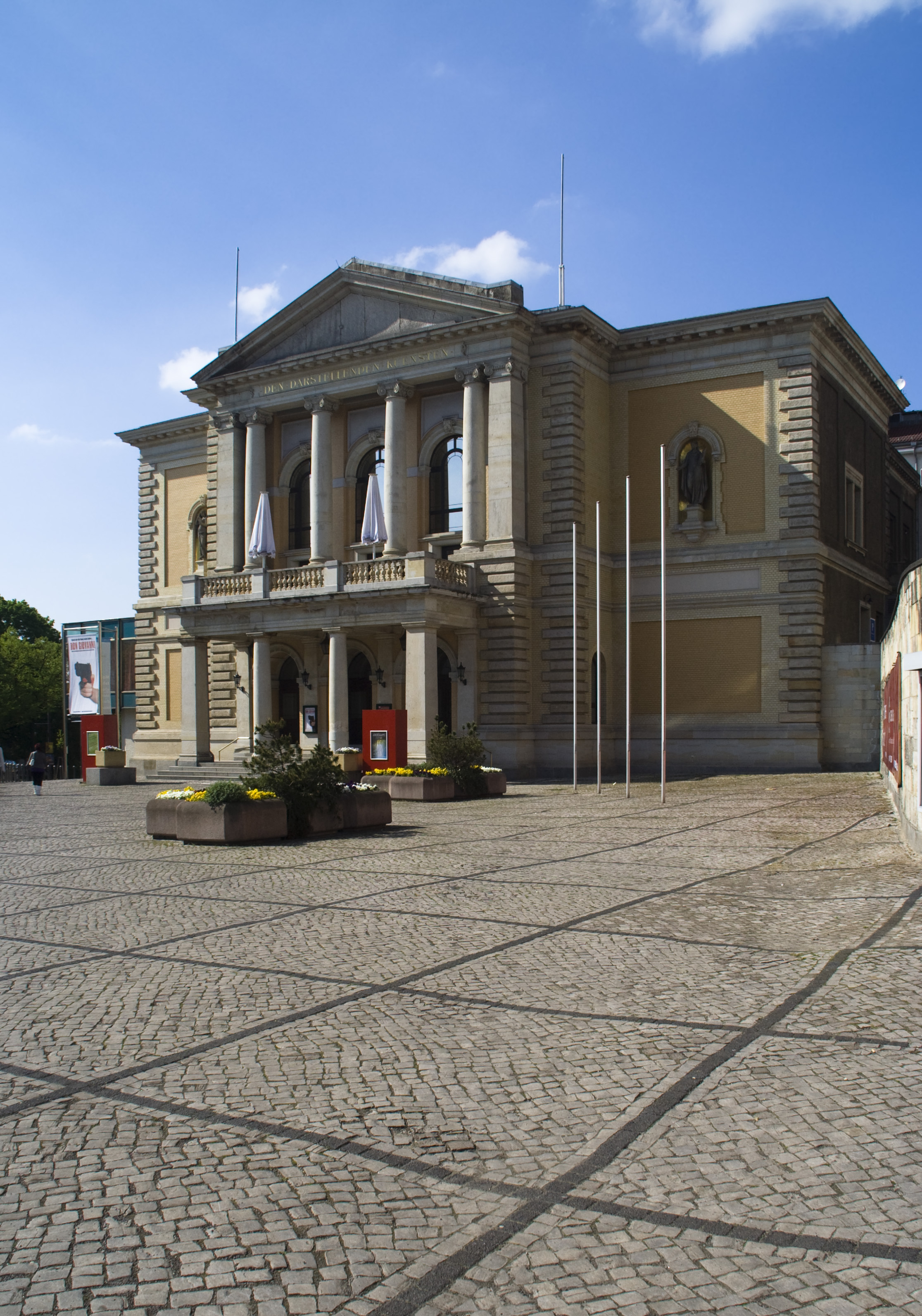 The Opera House of Halle, Saxony-Anhalt